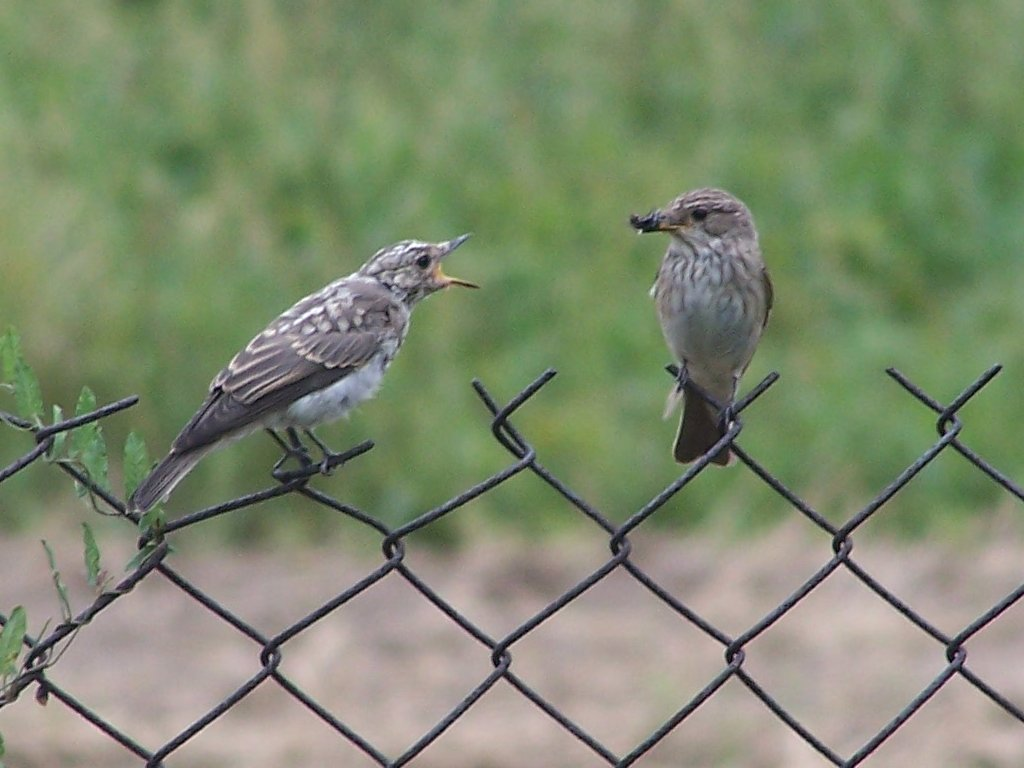 Muscicapa striata: the young one still requires feeding. August 2006, Kręgi Nowe, Poland